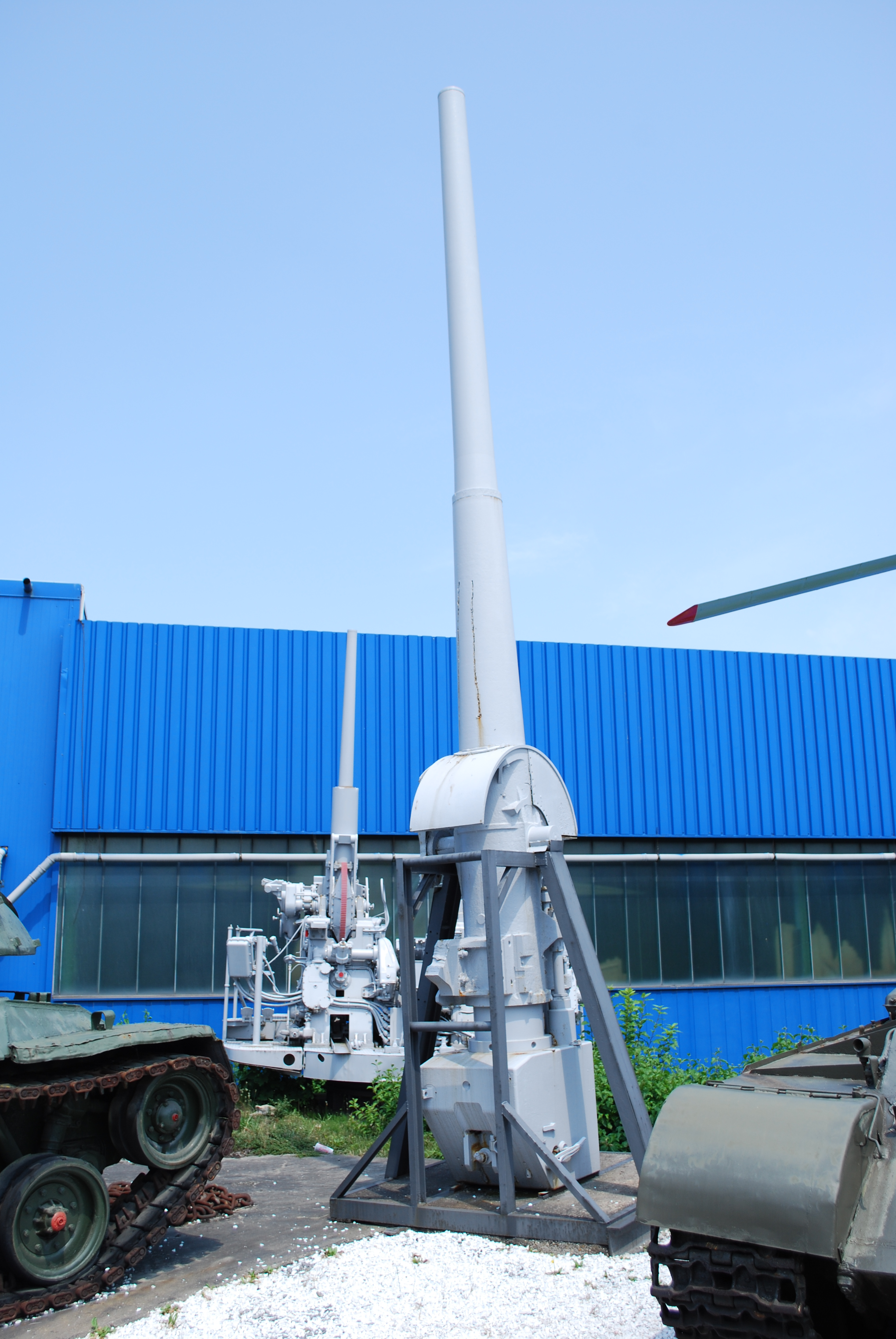 100 mm AA gun recovered from the sunken, battered wreck of the Tirpitz in Tromso in 1960 at the Auto & Technik Museum, Sinsheim, 6/11. An incredible survivor!